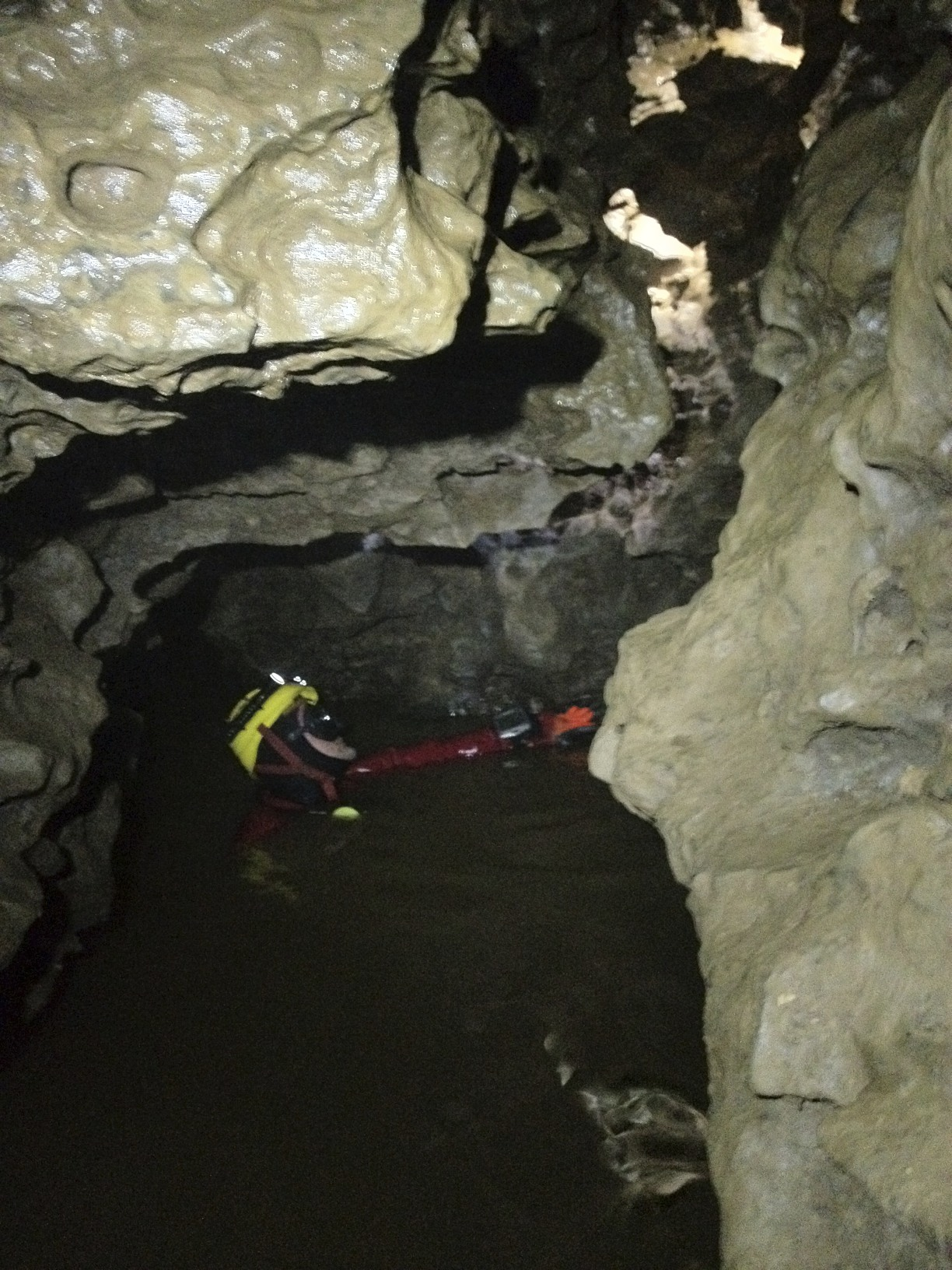 Cave Diver in the "Orkus" part of the "Kluterthöhle".